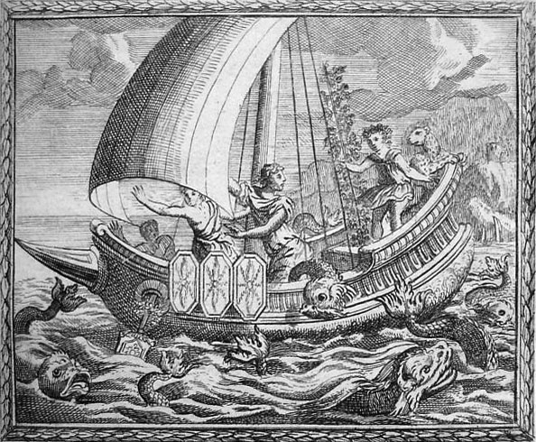 Illustration from Ovid's Metamorphoses III